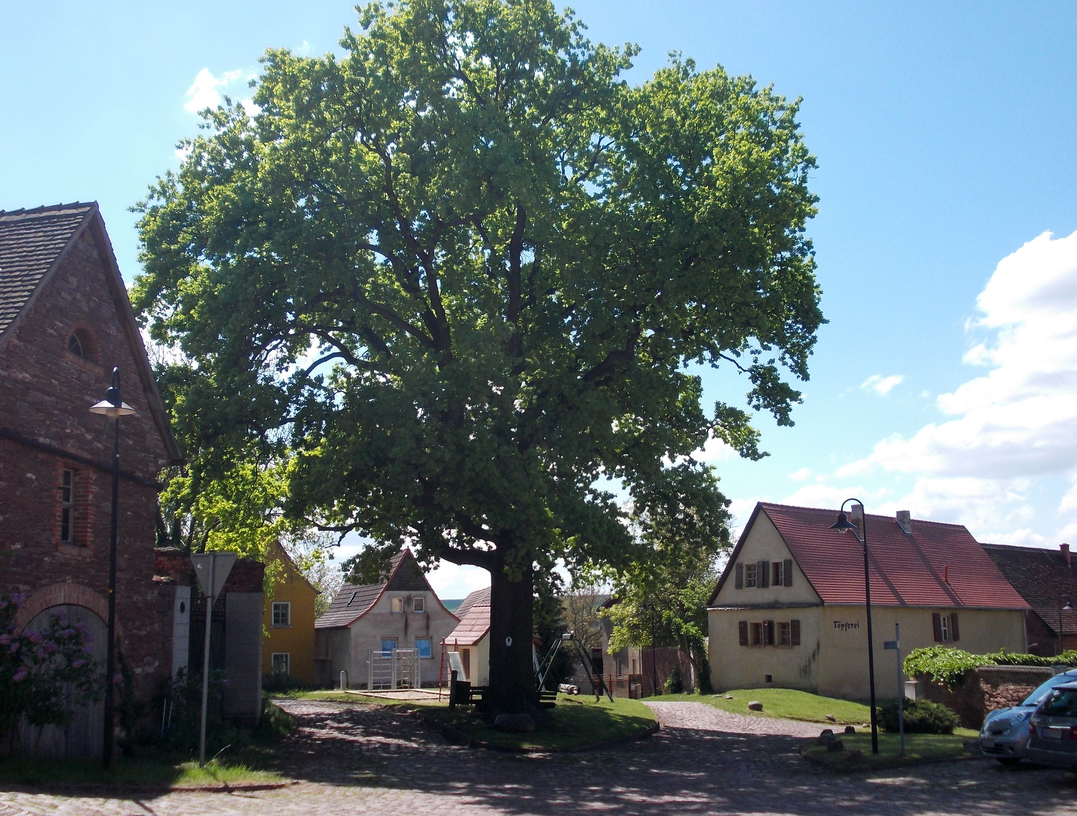 Square in Dobis (Wettin-Löbejün, district: Saalekreis, Saxony-Anhalt)